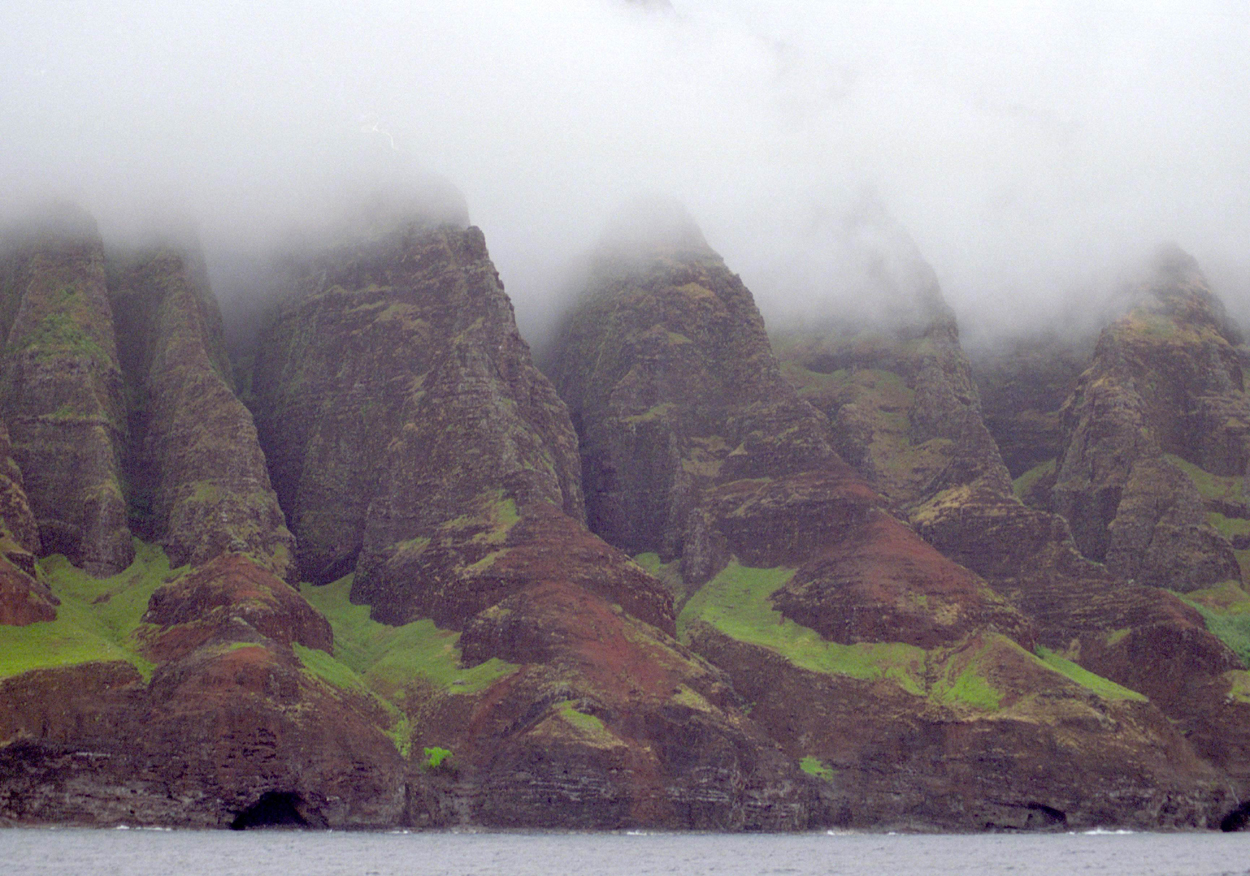 Na Pali Coast of Kauai Island, Hawai'i